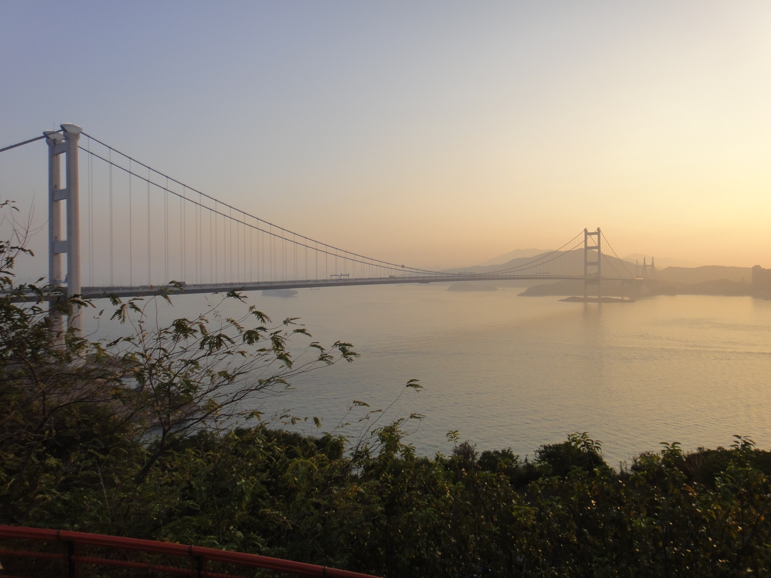 Lantau Link Visitors Center